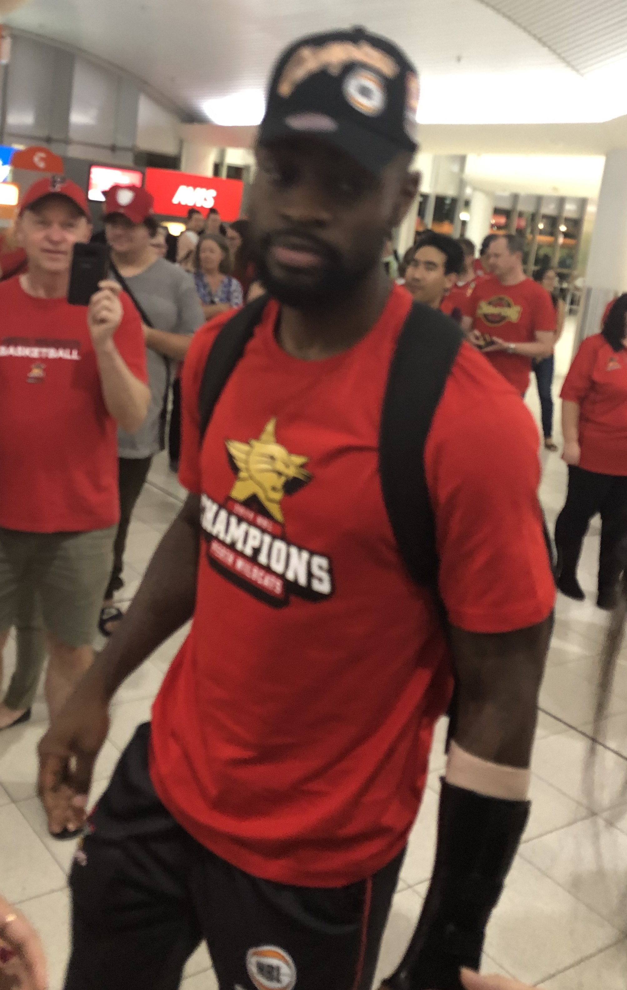 Terrico White of the Perth Wildcats after winning the championship